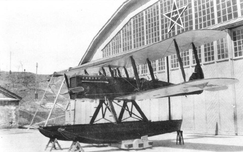 Naval intelligence, Polikarpov MR-1